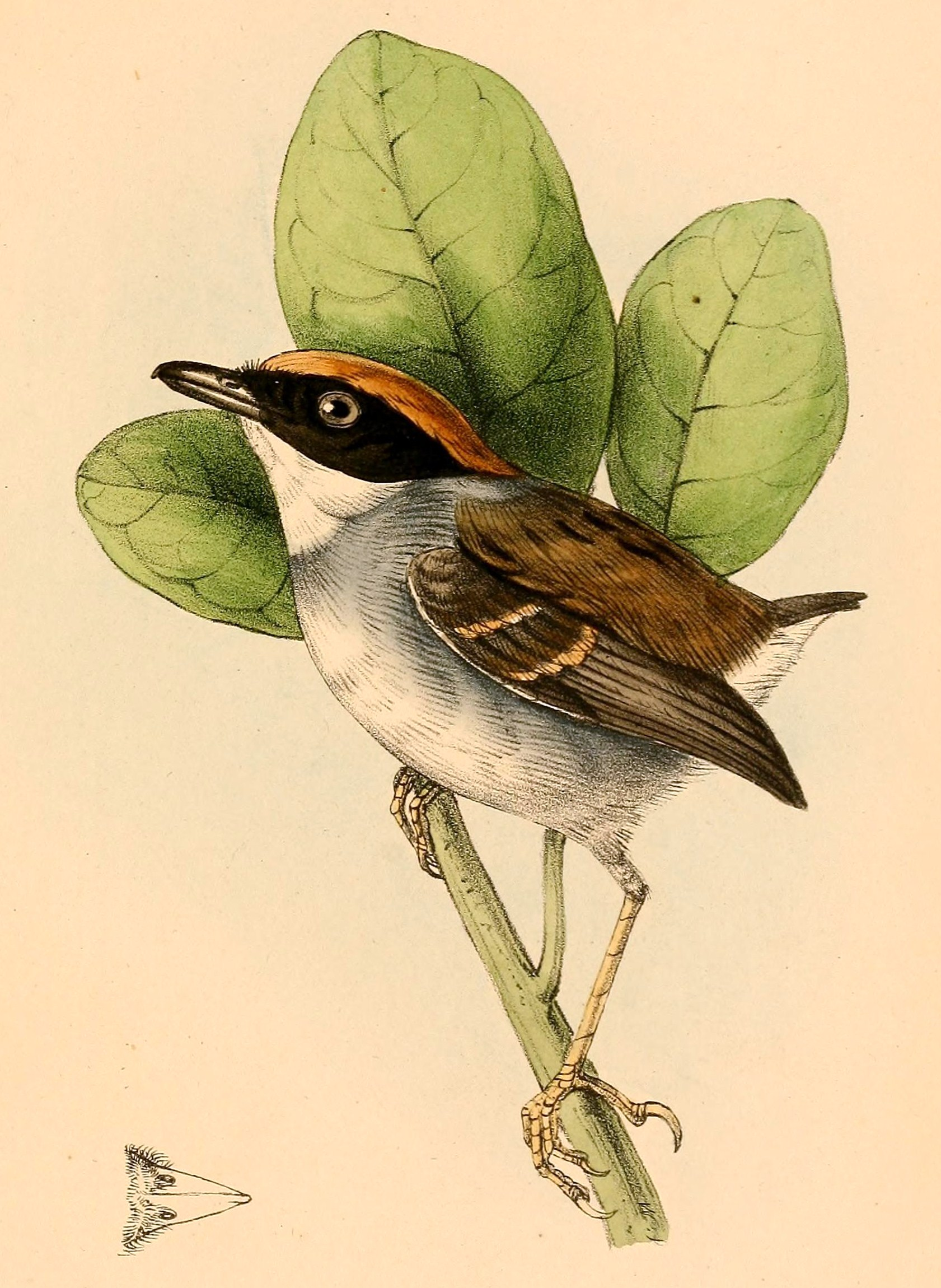 « Conopophaga ruficeps » = Conopophaga melanops perspicillata (Subspecies of Black-cheeked Gnateater) - male